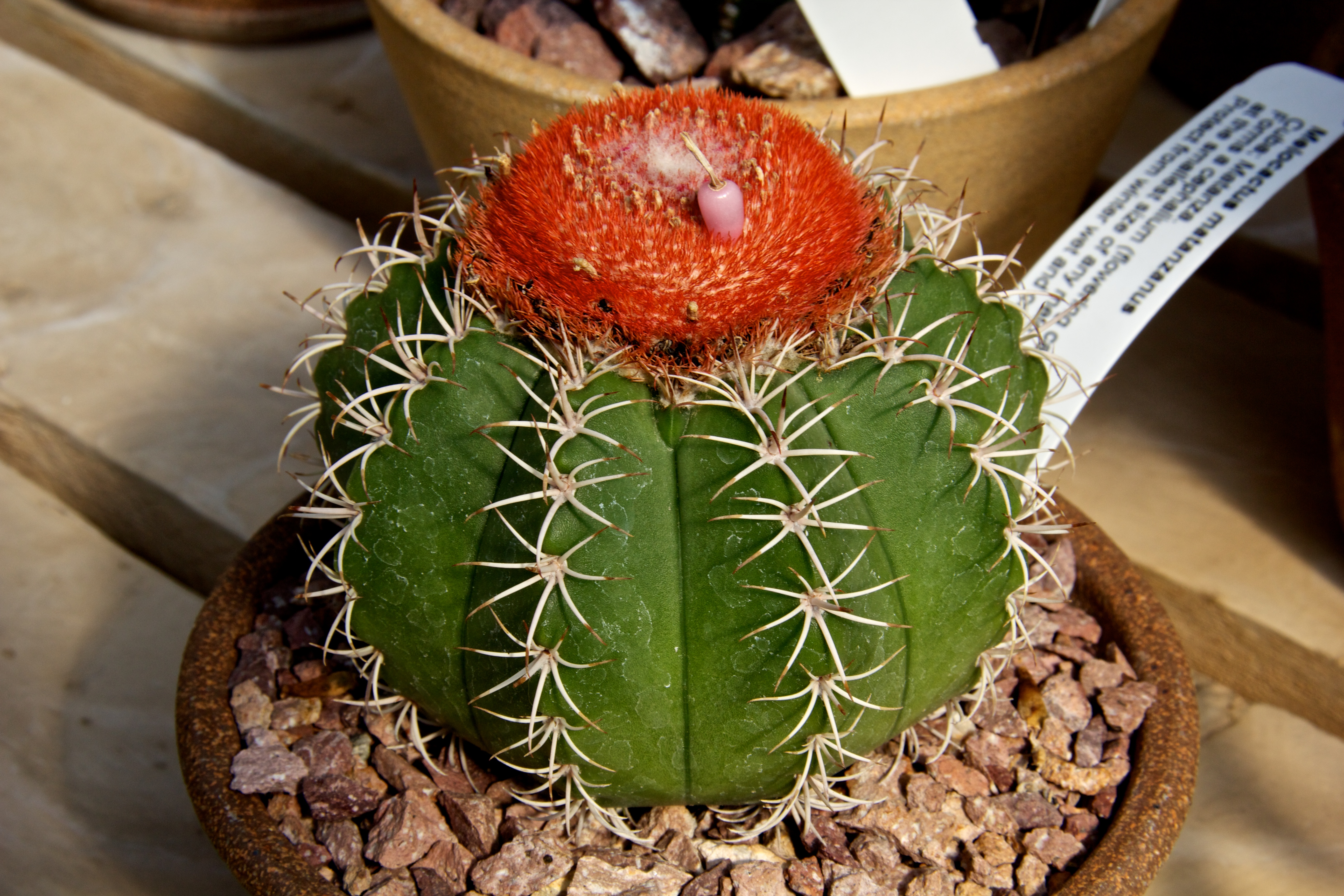 Melocactus matanzanus. Cuba; Matanza. Forms a cephalium (flowering cap) at the smallest size of any melo. Protect from winter wet and cold. On display at the Huntington.